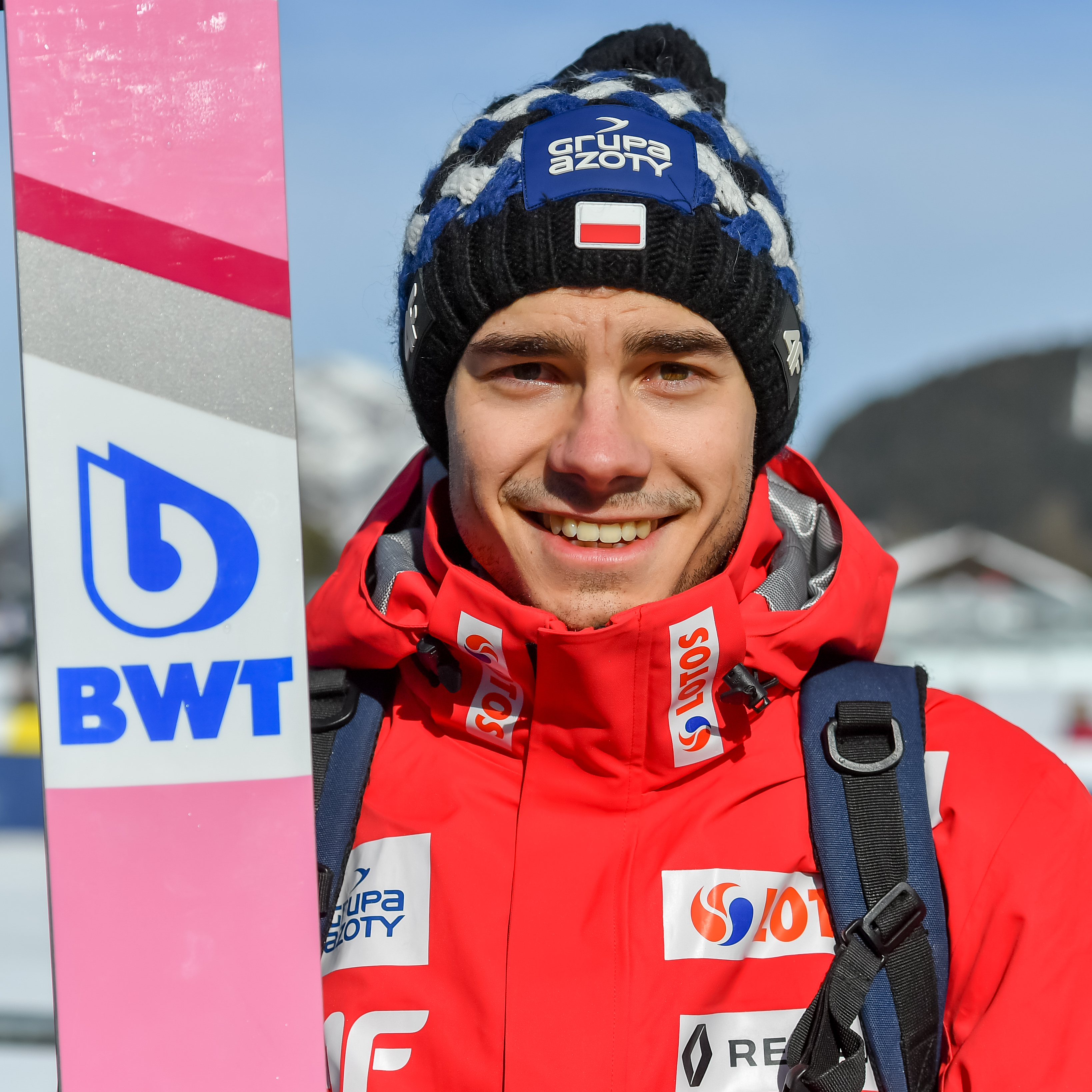 Seefeld, February 26, 2019: FIS Nordic World Ski Championships, Ski Jumping Training Men.